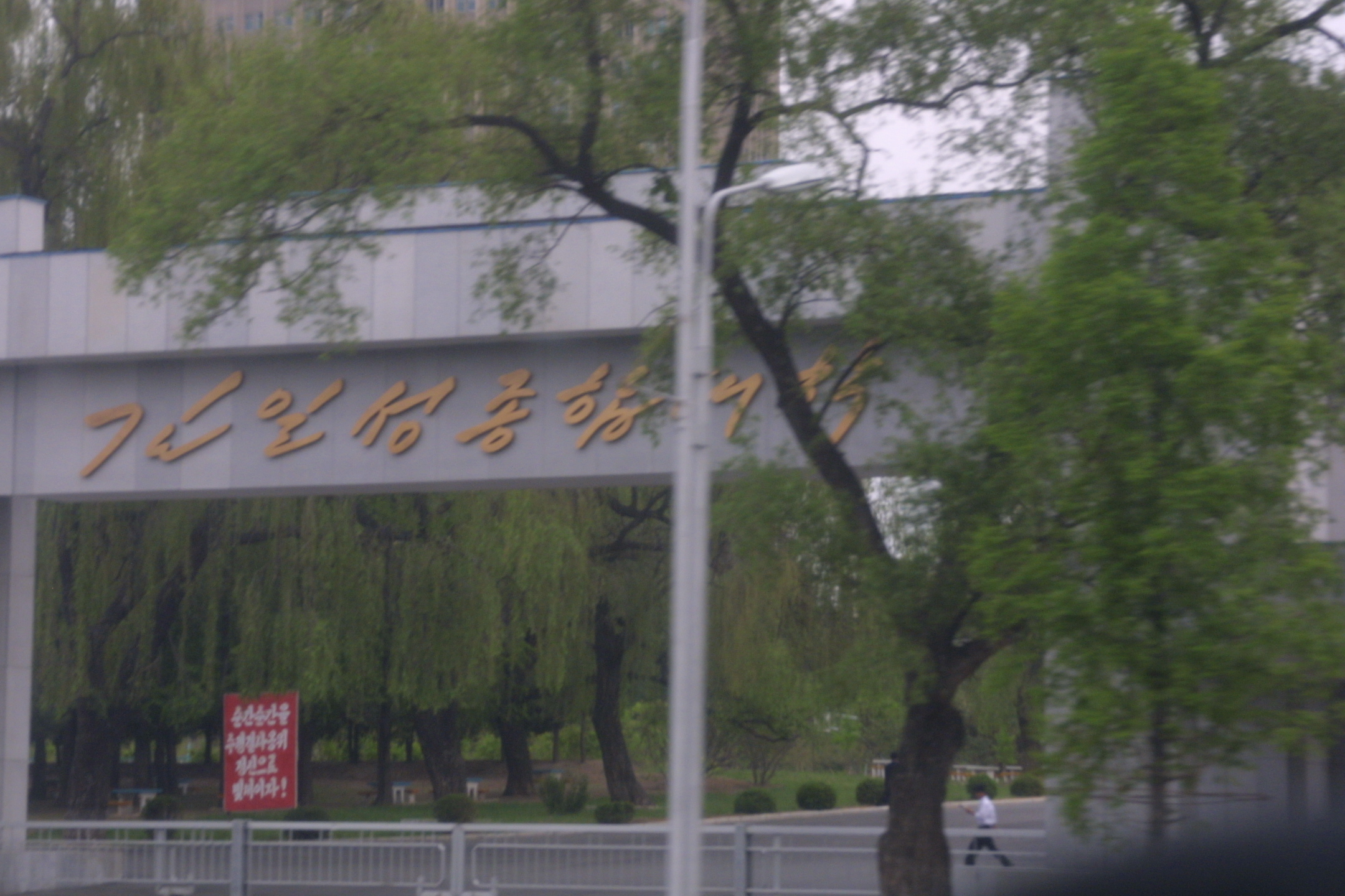 Photo of main gate to Kim Il-sung University (Taken by Jeong-Ho Roh, May 2002)